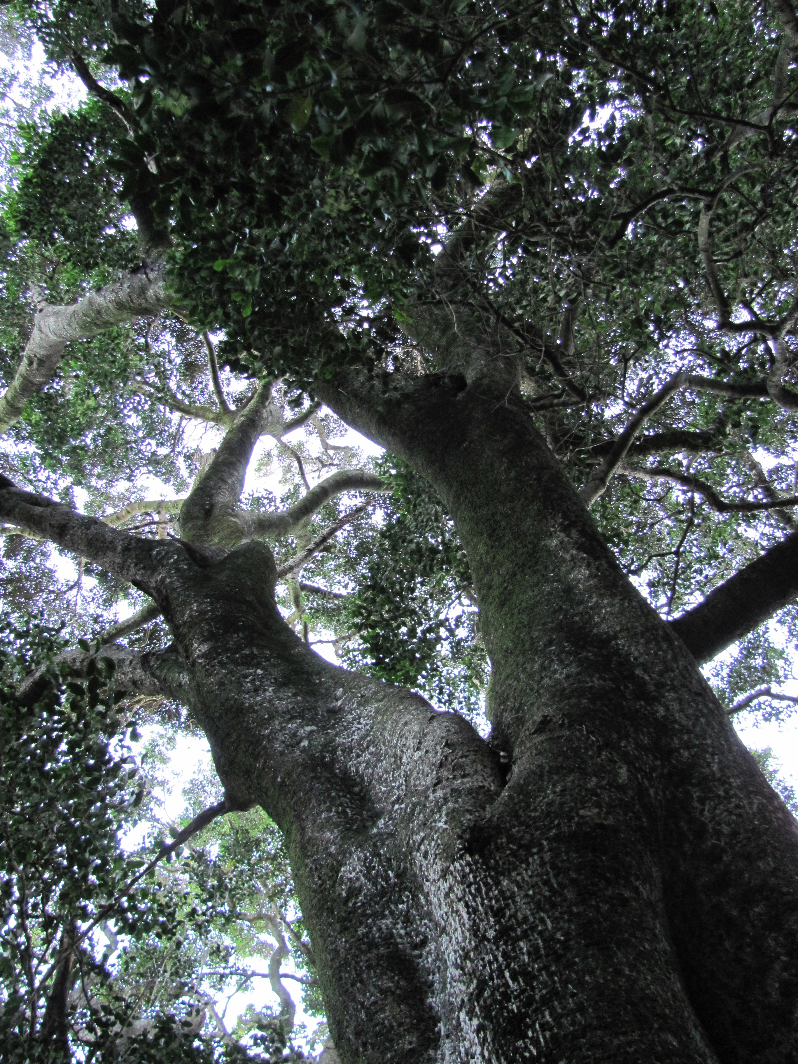 Indigenous Ironwood tree of Cape Town. Olea capensis macrocarpa. AKA Olea macrocarpa. South African afrotemperate forests.